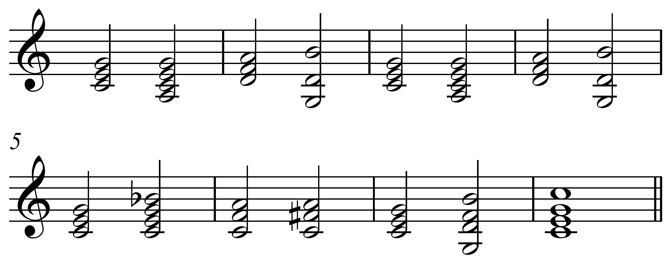 Rhythm changes A section in C. Created by Hyacinth (talk) 17:28, 13 July 2010 using Sibelius 5.